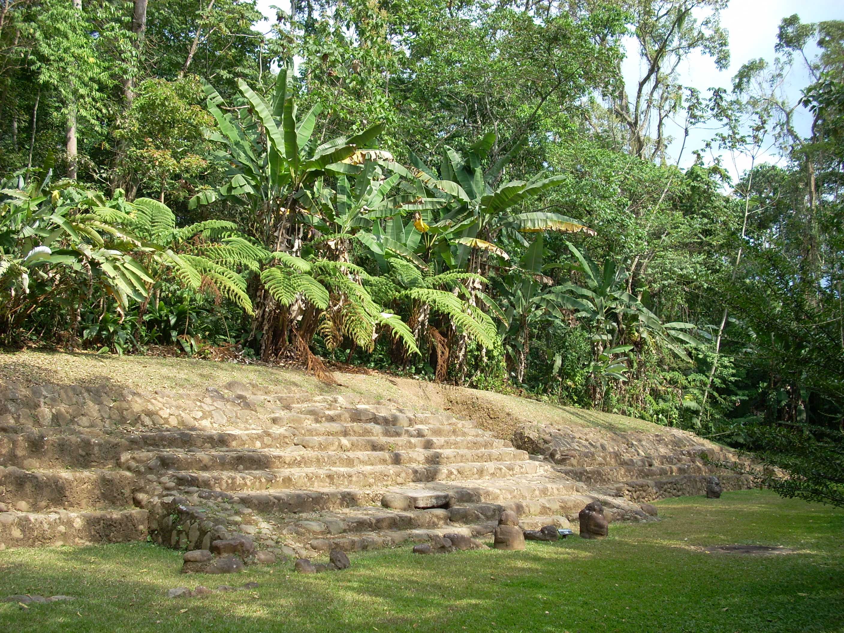 Potbelly figures in situ in front of the access stairway to Terrace 3, at Takalik Abaj, Guatemala.